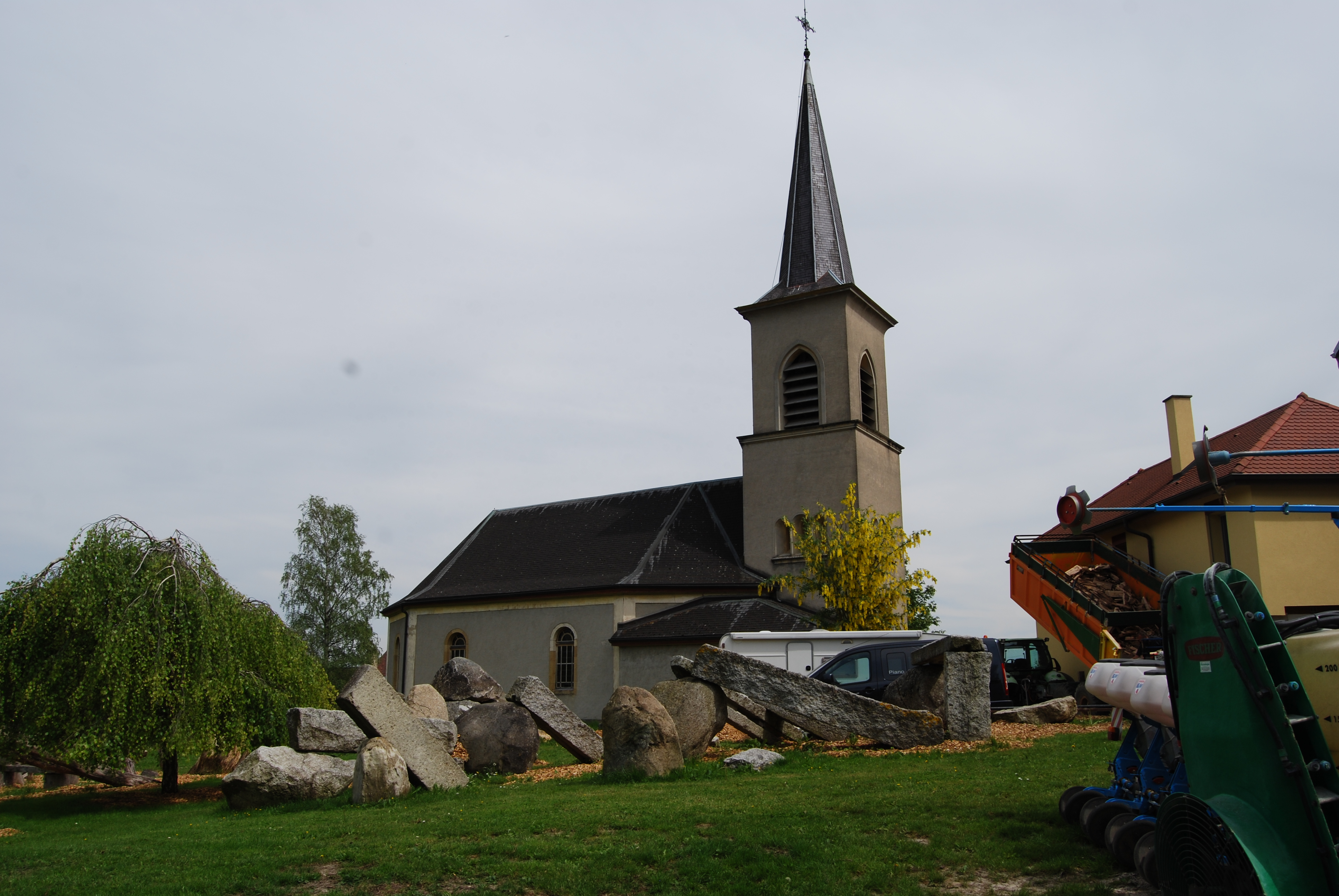 Church of Champvent, canton of Vaud, Switzerland